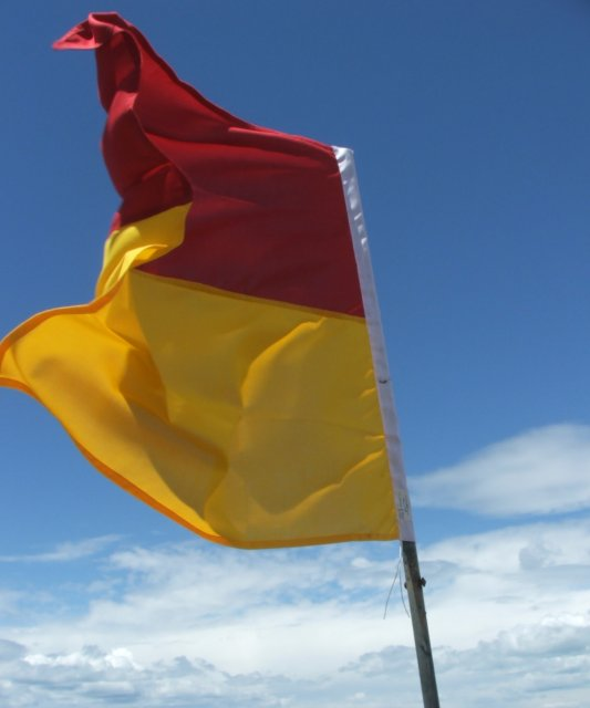 Red and Yellow Flag shows that the area is safe to swime and a lifeguard is on duty.